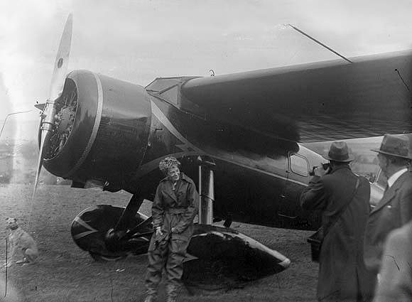 On Saturday, 21 May 1932, Amelia Earhart was on her second Atlantic crossing when she was forced to land in a field near Derry (Londonderry) in her "Little Red Bus". Ireland of the Welcomes was to the fore in the Irish Independent account on Monday, 23 May 1932: "... the hospitality she had received after making her forced descent, for two minutes later she was in the cottage of Mr and Mrs Peter McCallion, who put their home at her disposal. Almost at the same time Mr Gallagher arrived and persuaded Miss Earhart to accompany him to his home, where Mrs Gallagher had tea already prepared." There was no account of how the McCallions took to having the Gallaghers scoop them in what must have been the tea party of their lives! Amelia Earhart's Lockheed Vega 5B is now preserved at the National Air and Space Museum in Washington DC. NLI Ref.: INDH2848